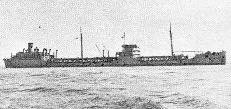 Mission Santa Ynez (T-AO-134) at anchor, US Navy photo from MSTS Mariner magazine. img URL